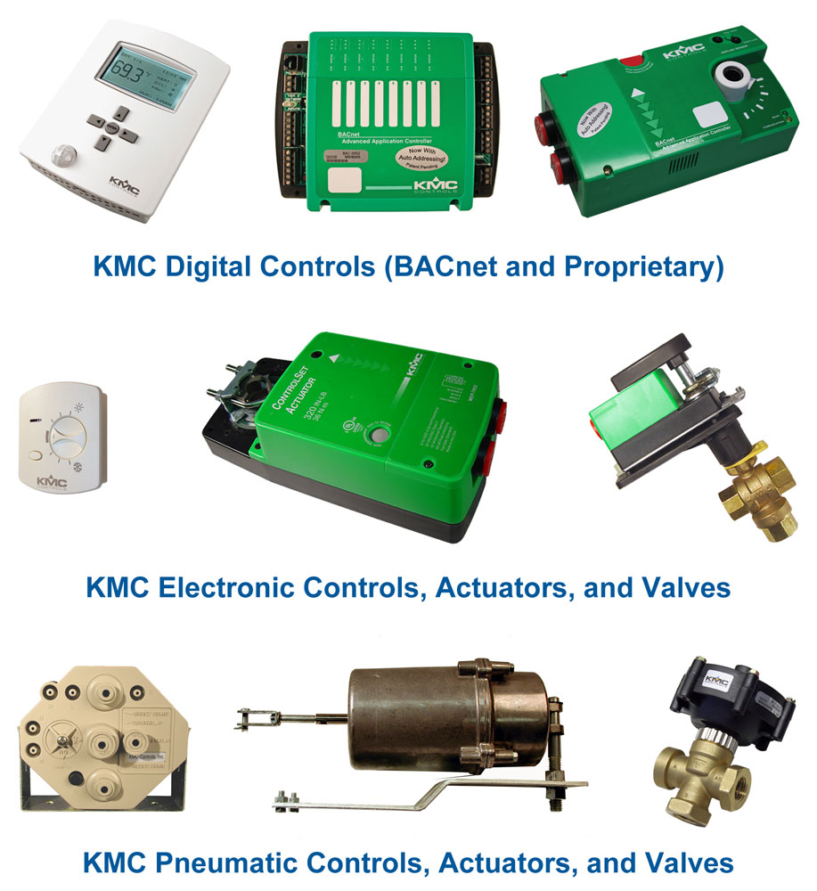 Sample Building Automation (HVAC) Controls by KMC Controls ( This collage of products include samples of digital controls, electronic controls/actuators/valves, and pneumatic controls/actuators/valves. Products provided courtesy of KMC Controls for Wiki Commons.